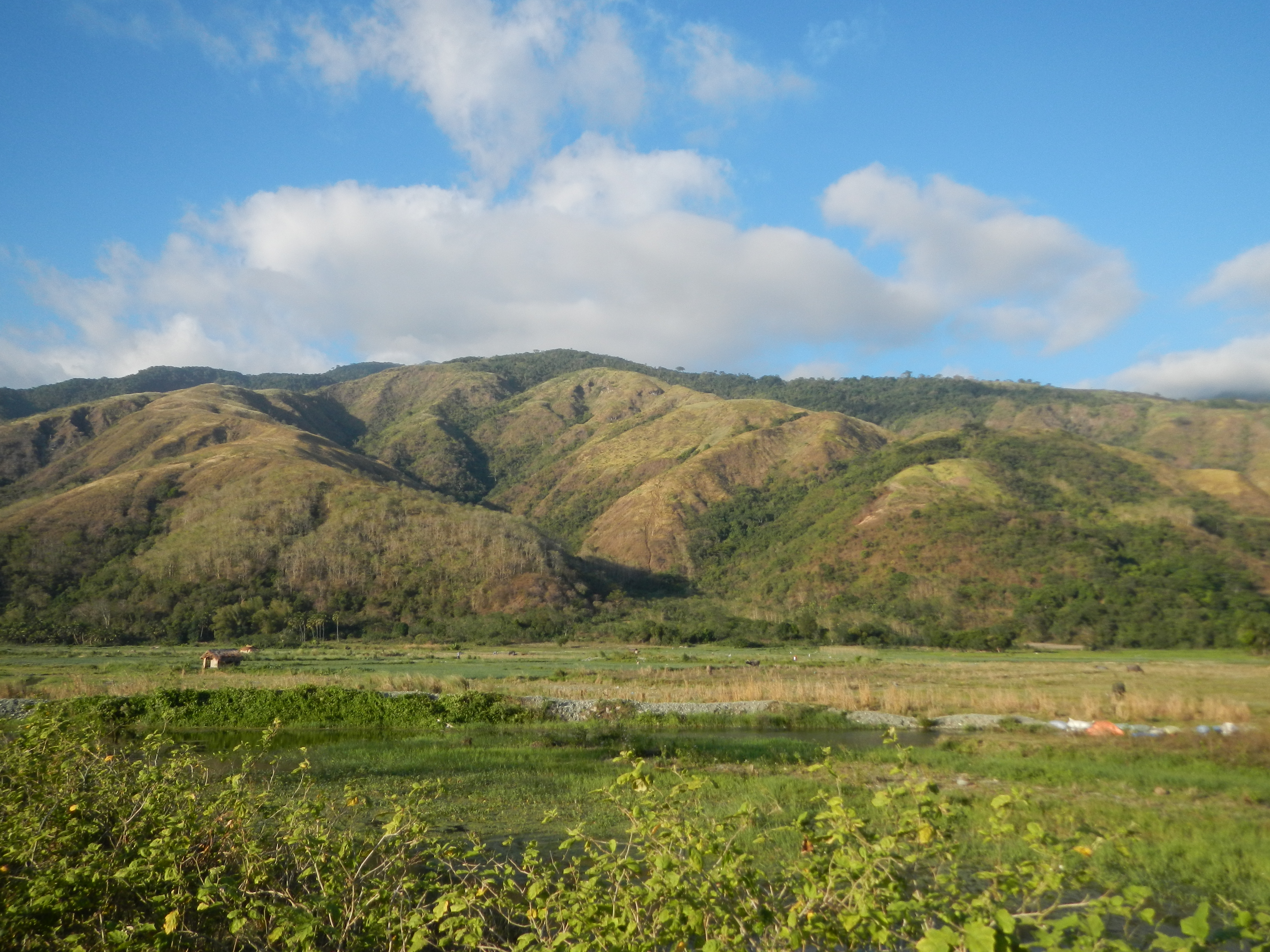 Sierra Madre (Philippines)[1]The Sierra Madre is a mountain range in the Philippines. It is located along the north-eastern coast of Luzon Island, running north/south. Quezon National Forest Park is situated in the range. Gabaldon, Nueva Ecija[2] (formerly Sabani and Bitulok) is a fourth class municipality in the province of Nueva Ecija, Philippines; it has a population of 32,246 people in 2010. Ilog Carugang (Carugang River) serves as the gateway to Sitio Carugang, a far-off place in Gabaldon, Nueva Ecija. The river has been a silent witness to the harvesting of what the people of Carugang had sown, for merchants have to cross the river so they can buy the crops the farmers planted and reaped.[3]